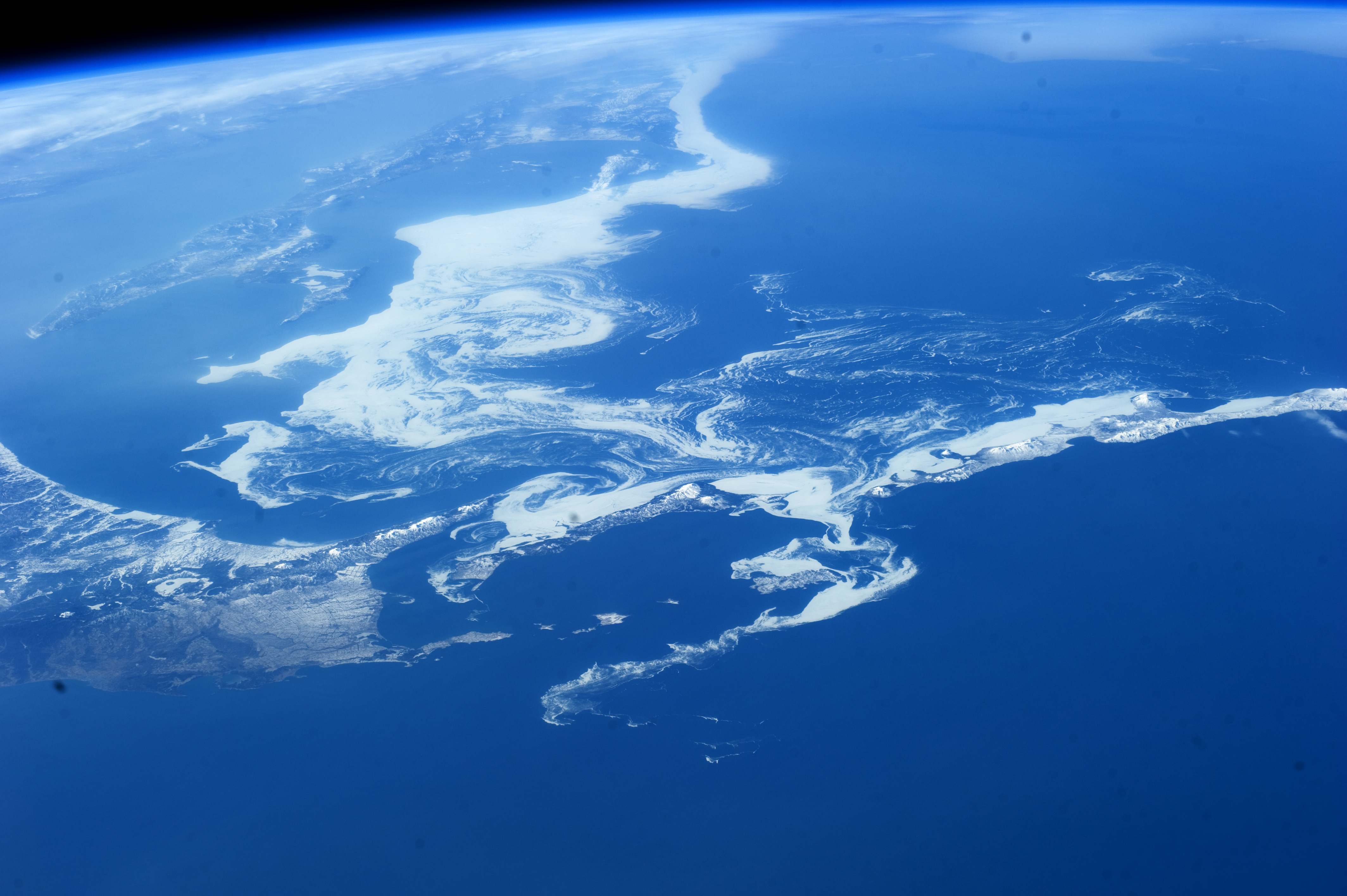 Photographed with a camera equipped with an 80mm lens from the International Space Station, patterns of sea ice in the Sea of Okhotsk reveal the dynamics of ocean currents that could otherwise only be seen in sunglint. In this Expedition 39 photo, one can see nearly 1,000 kilometers (600 miles) of the East Sakhalin Current, which is carrying winter ice south toward Japan's Hokkaido Island. The current is marked by the narrow corridor of dense ice that hugs the coast of Russia's Sakhalin Island. As it approaches Hokkaido, the ice patterns show a series of eddies and swirls. The East Sakhalin Current wanes in summer when the Soya Current begins to enter the Sea of Okhotsk. This inrush of summer water starts in April and, according to NASA scientists, probably expresses itself in this image as ice pattern to the east above Hokkaido. The Sakhalin current turns east and transports ice toward the Kuril Island chain. Some ice can spill through gaps in the islands, where it is swept southwest by the Kuril Current (lower right).